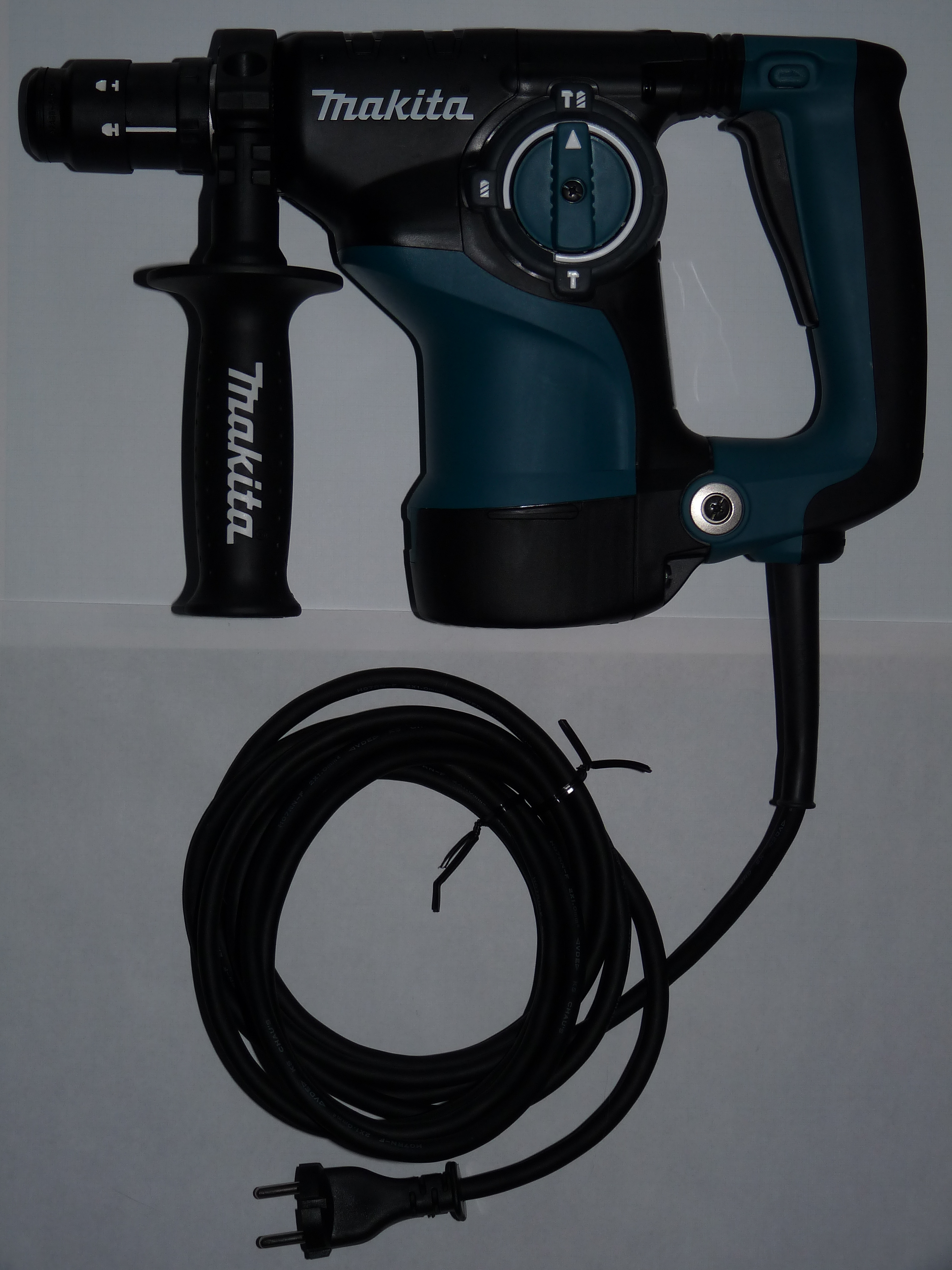 New animal is bought, will see it's work. My choice felt on this brand cause of two facts: previous Makita managed to live 6 years in "severe" conditions and of course I don't want to left expensive tools without supervision on building places - price and endurance were crucial.